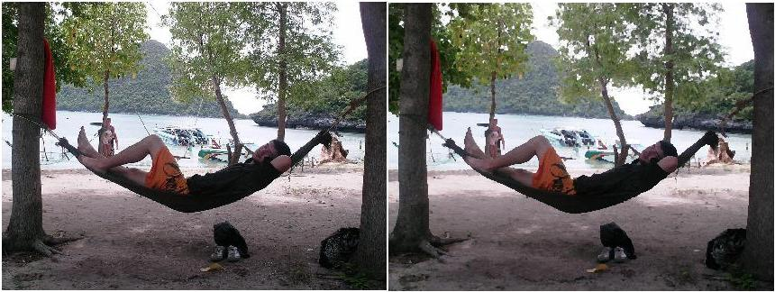 Kuwahara edge-enhancing filter used for noise reduction.